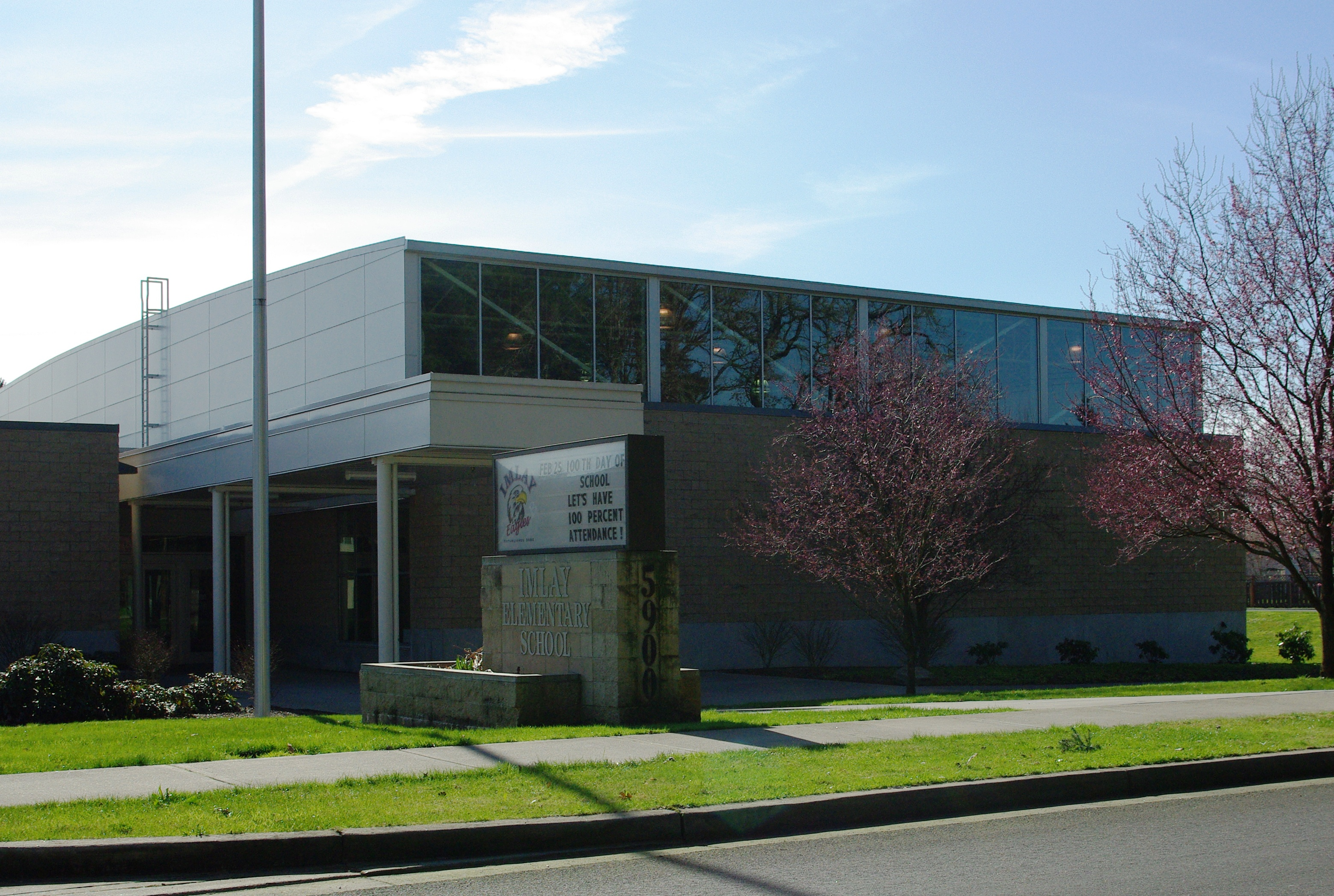 Imlay Elementary School in Hillsboro, Oregon, part of the Hillsboro School District.